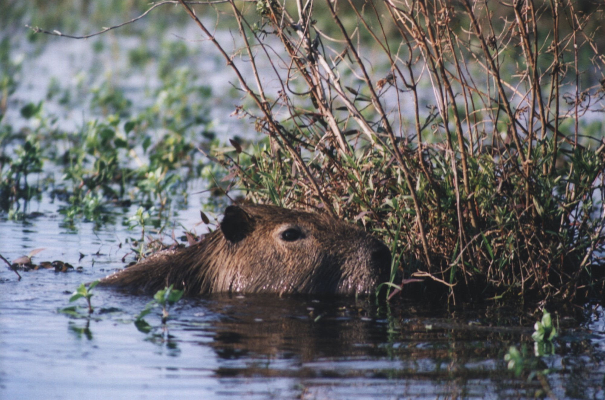 Swimming capybara (Hydrochoerus hydrochaeris) at the Iberá marshes, in Corrientes, Argentina